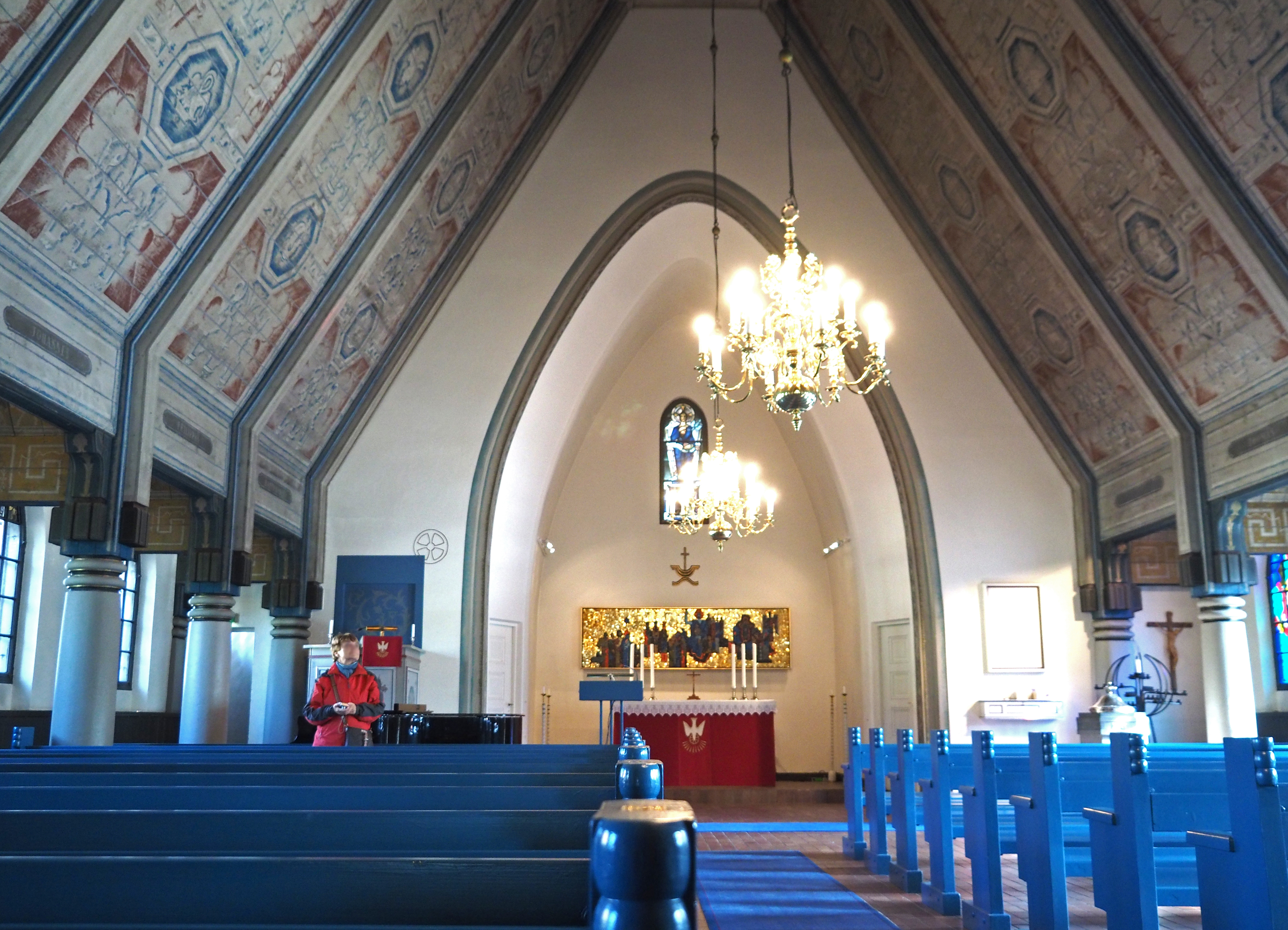 Interieor Saint George Church in Mariehamn, Åland, Finland